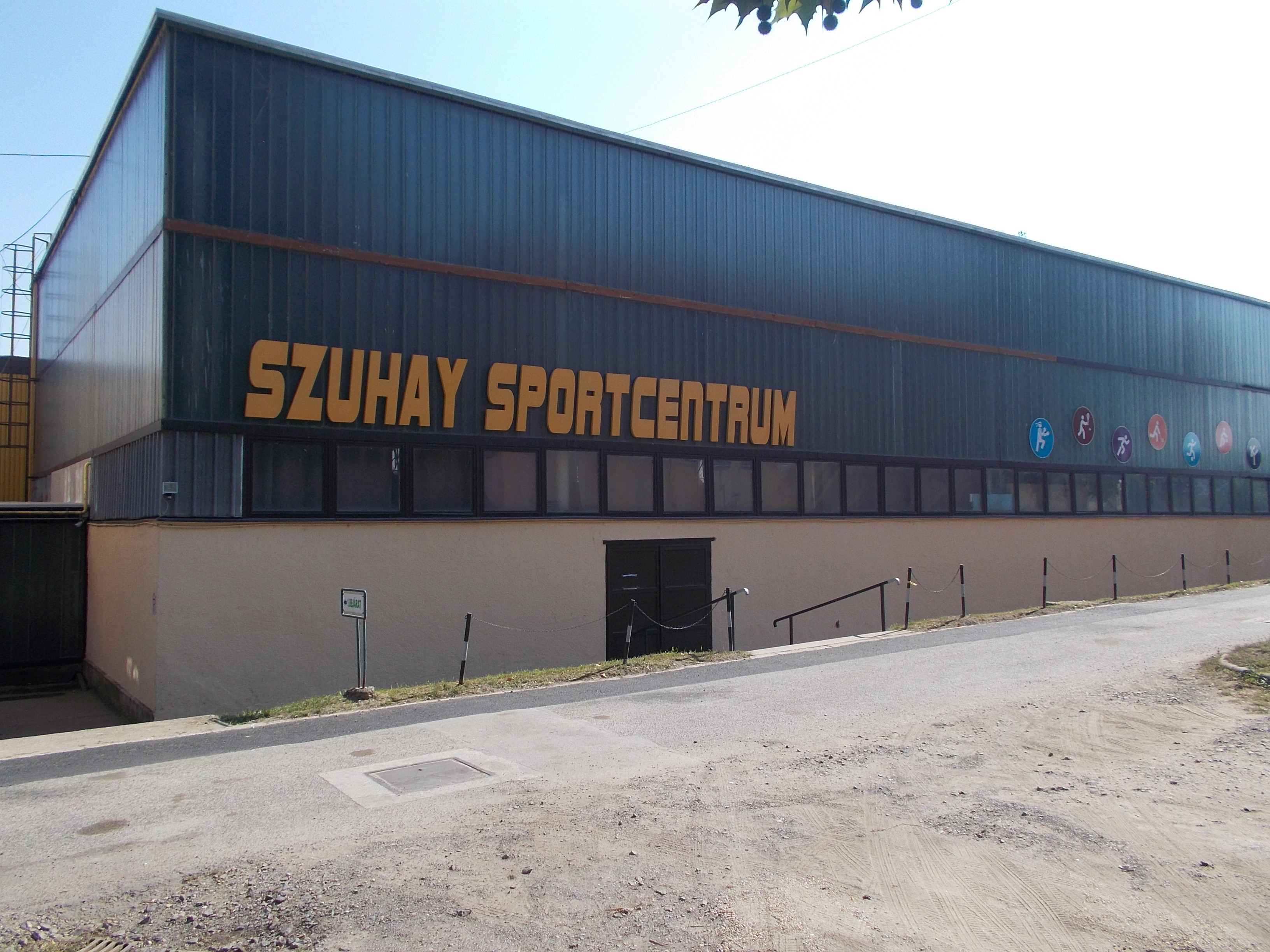 Szuhay Sports Center, south (New) sports hall. Home of Dombóvár National Basketball League team. - Dombóvár, Tolna County, Hungary.